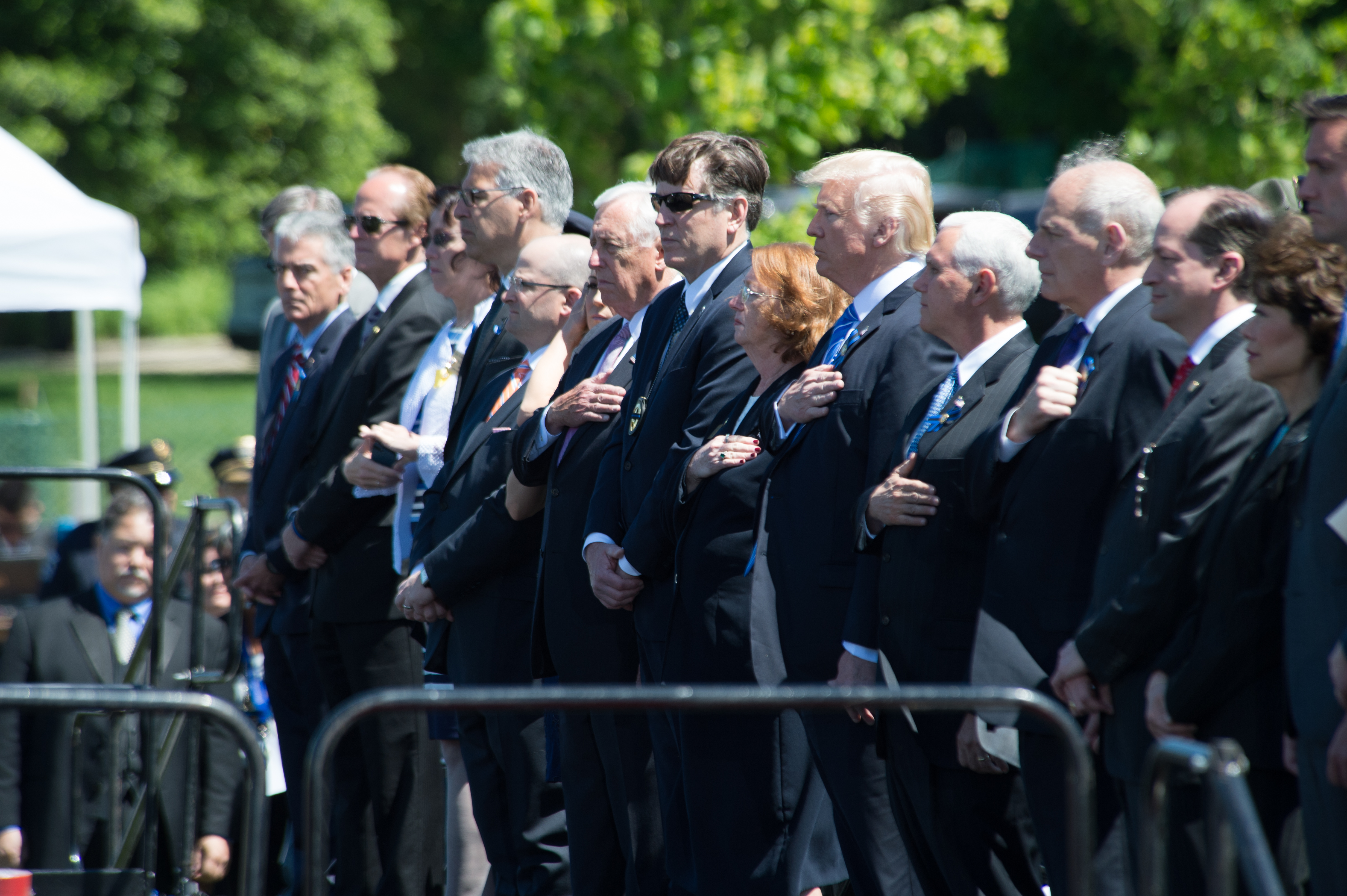 Washington, D.C., 15, May 2017. The 36th Annual National Peace Officers' Memorial Service held on the West Front of the United States Capitol in Washington, D.C., honored law enforcement officers killed in the line of duty. Speakers included President Donald Trump and Vice President Mike Pence and guests on the dais included the Attorney General Jeff Sessions and the Director the U.S. Marshals Service David Harlow. During the ceremony family of fallen officers placed carnations for the fallen forming a star and received a medal for the officer’s service. Photo by: Shane T. McCoy / US Marshals